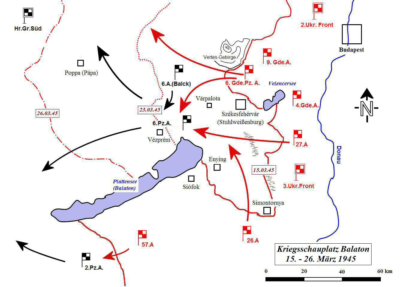 Overview of the western Hungary (lake Balaton) war theatre from march 15th to march 26th 1945. Based on a map printed on "Das Deutsche Reich und der Zweite Weltkrieg, Band 8" by Karl-Heinz Frieser (publishing, autor), article and map by Krisztián Ungváry.